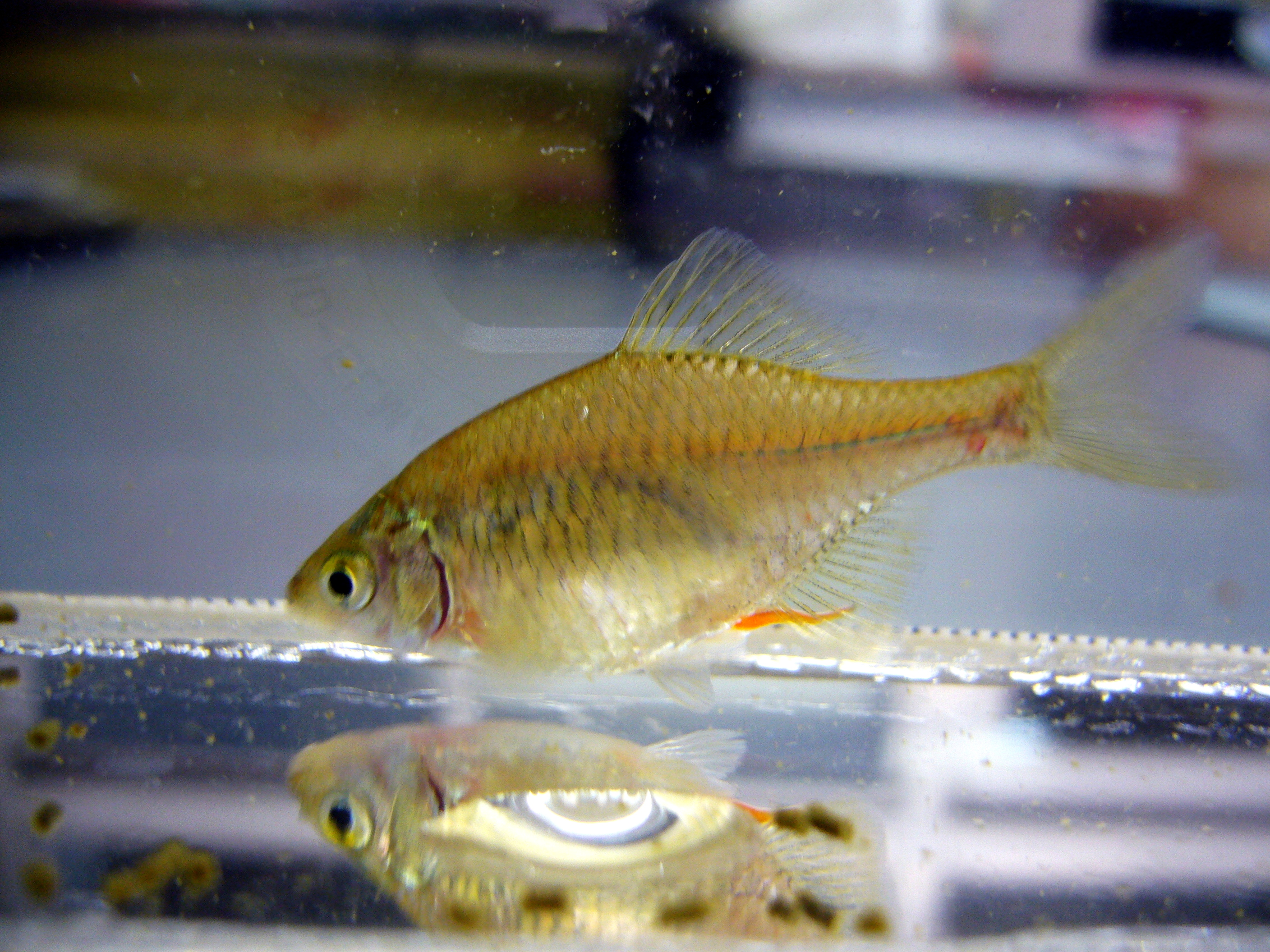 Rhodeus ocellatus kurumeus,the Japanese rosy bitterling, taken in Japan, 2006; (Sex F); released by Book74